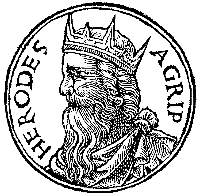 Agrippa I also called the Great (10 BC - 44 AD), King of the Jews, was the grandson of Herod the Great, and son of Aristobulus IV and Berenice.